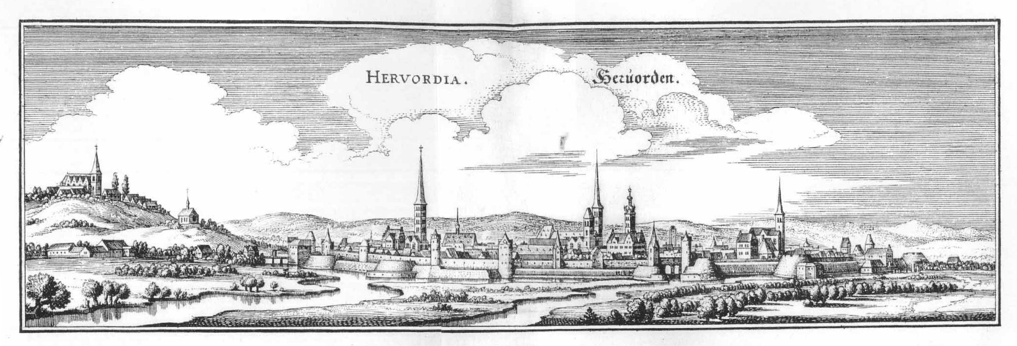 This is a scan of the historical document: Source